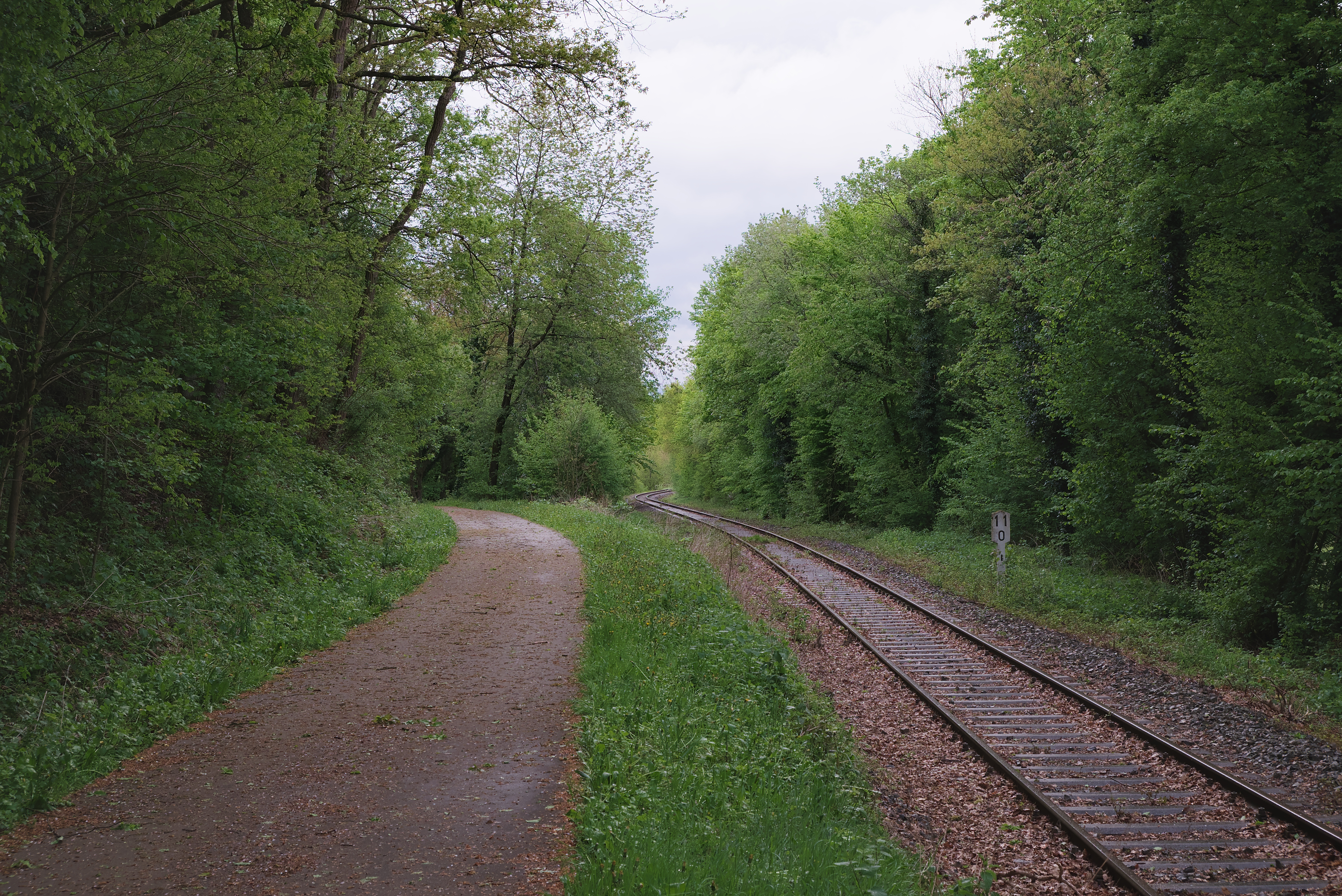 The Vennbahnweg and the Vennbahn in Aachen, Germany